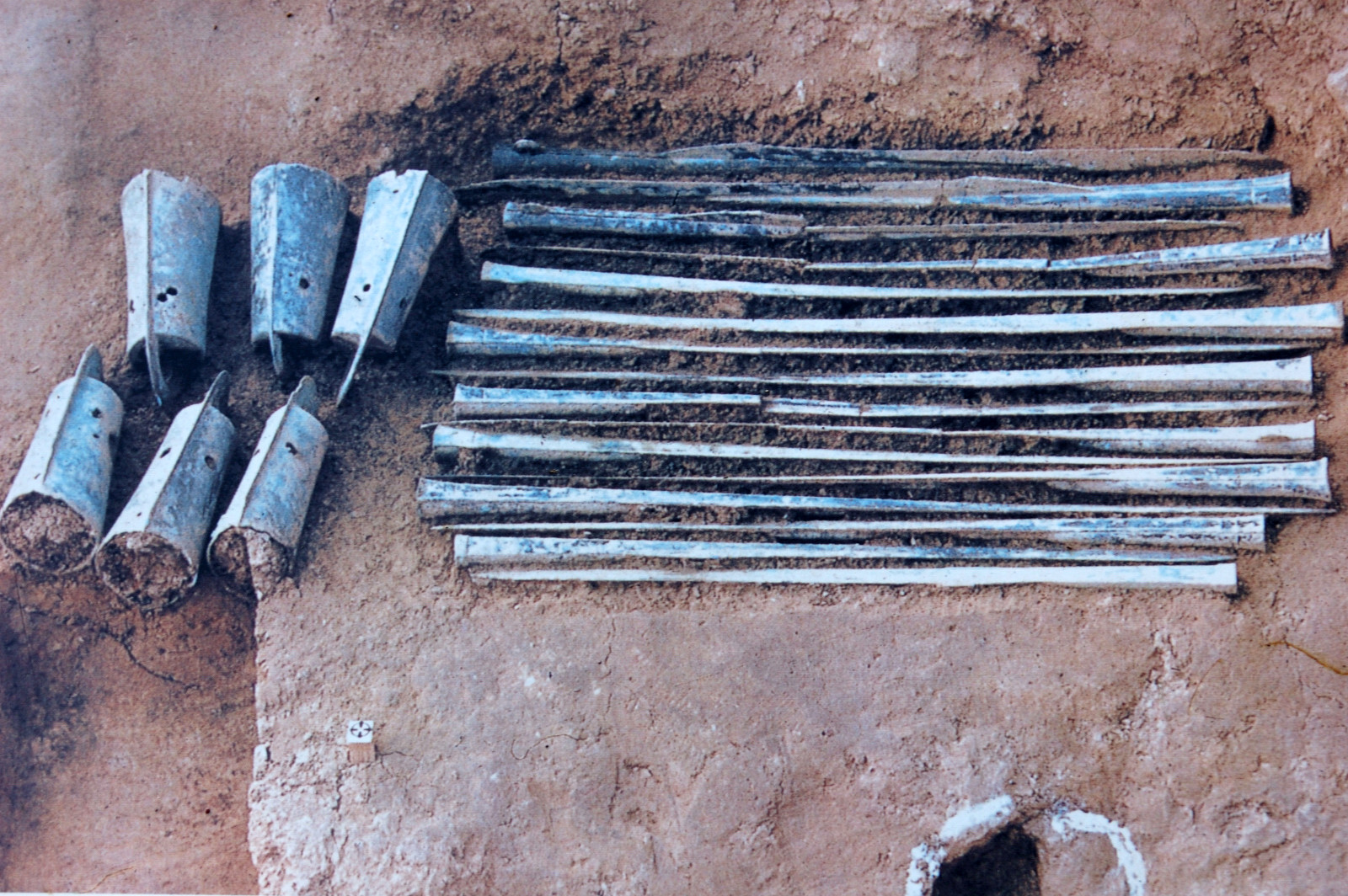 Kojindani remains discovery scenery of bronze materials(from information board)